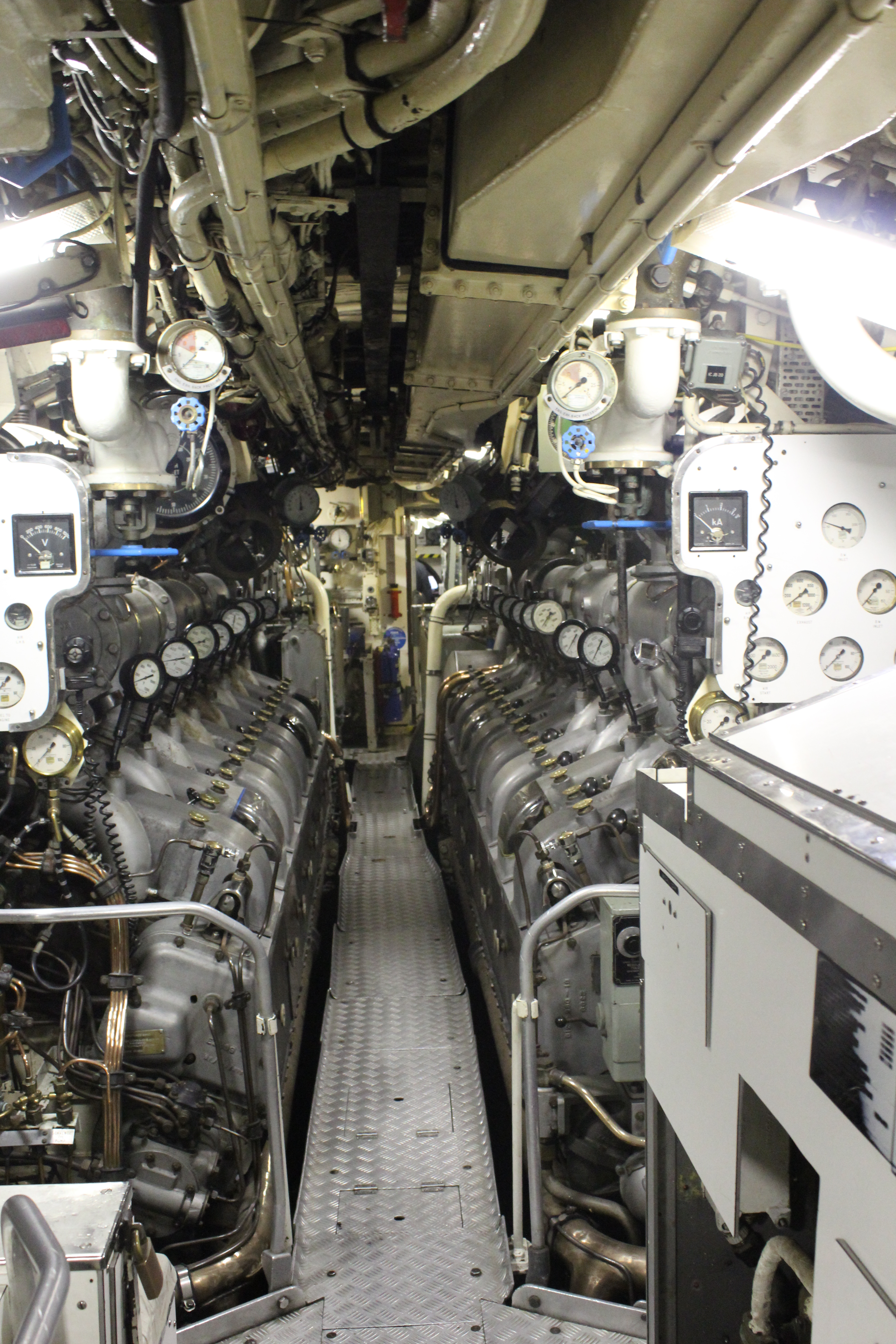 A view of the engine room of HMAS Onslow, a Oberon-class submarine of the Royal Australian Navy that was in commission between 1969 and 1999 and is now on exhibition at the Martime Museum, Sydney.